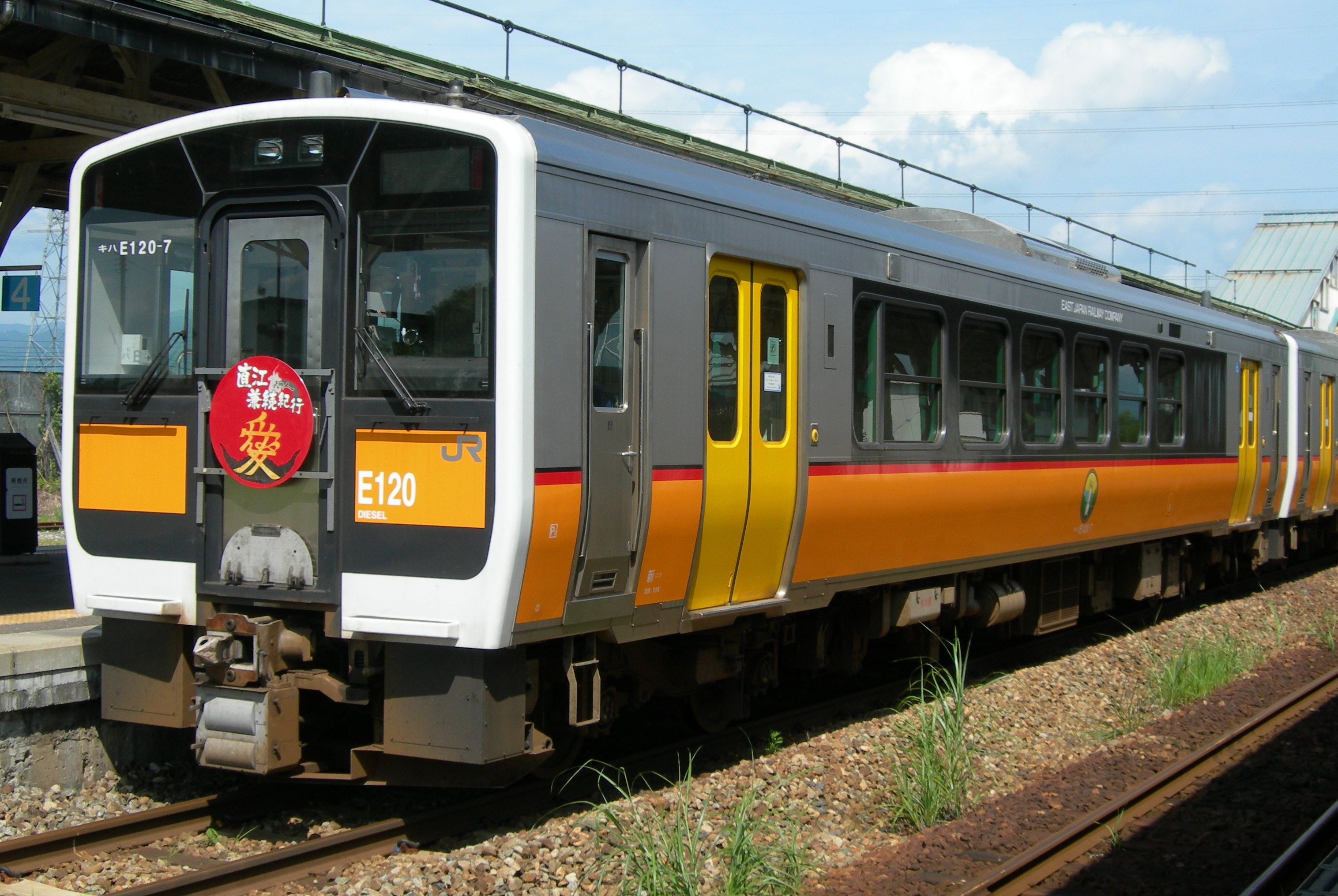 JR East KiHa E120 DMU at Imaizumi Station on the Yonezaka Line